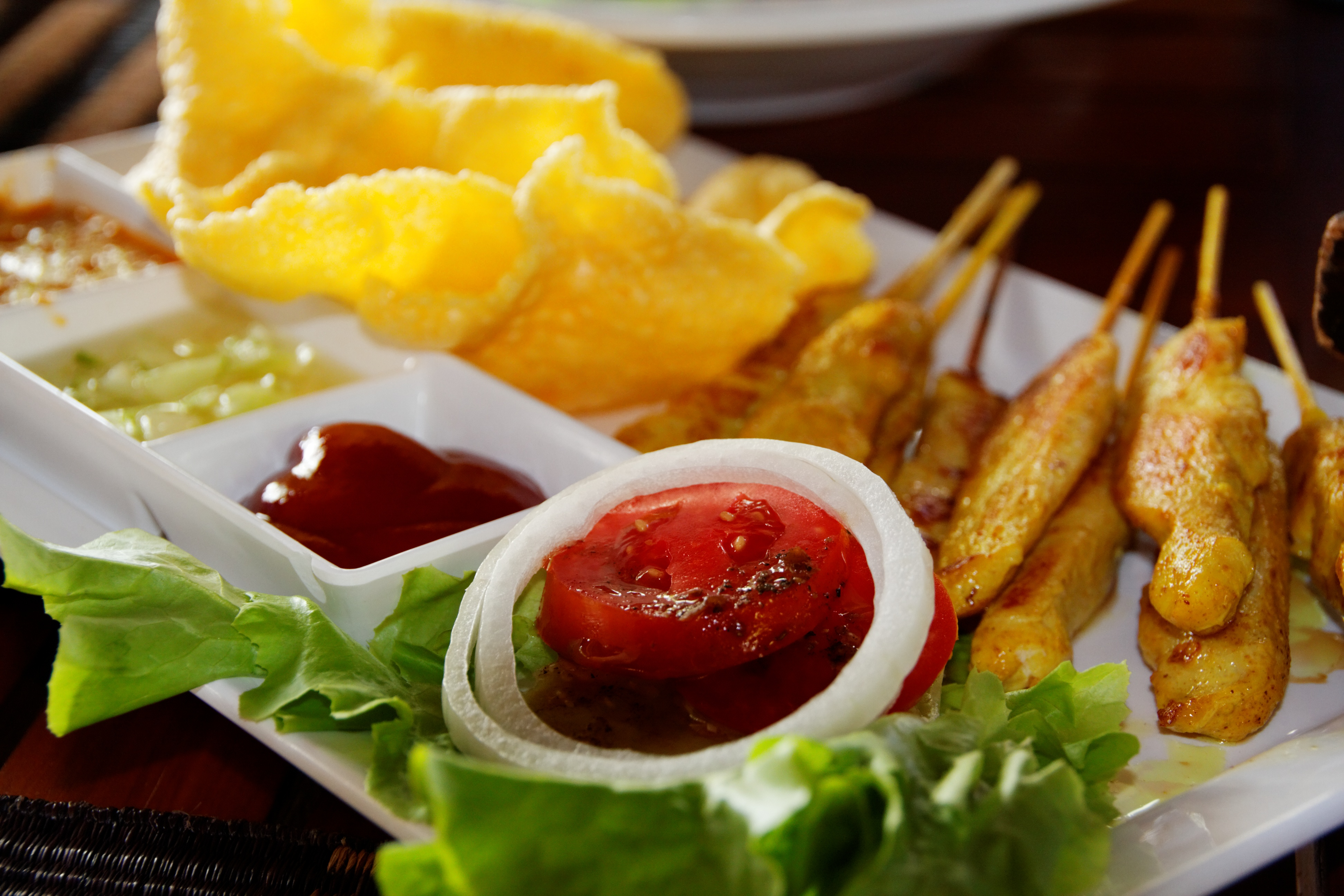 Lunch at JW Marriott Phuket Resort & Spa, Mai Khao Beach, Phuket, Thailand